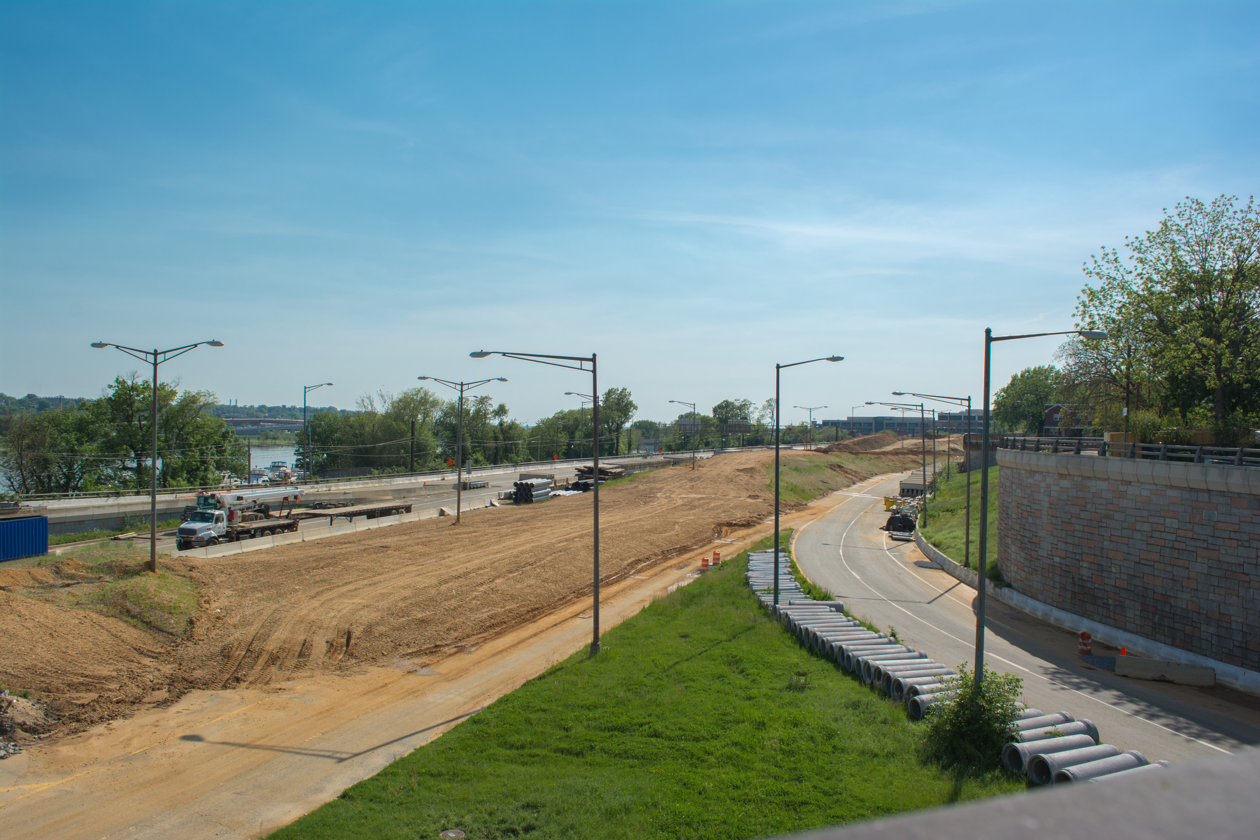 Looking southwest from Barney Circle in Washington, D.C., in the United States in May 2014 at the now-decommissioned Interstate 695. The roadway is being torn up, and the road bed raised by 20 feet to create a new road to be named "Southeast Boulevard". The now-closed on-ramp from Pennsylvania Avenue SE can be seen to the left. Interstate 695 was part of the proposed Inner Loop Expressway in Washington, D.C. The interstate highway was to have continued northward along the western shore of the Anacostia River to U.S. Route 50. Significant opposition to the Inner Loop led to its cancellation, but not before the portion of Interstate 695 from 2nd Street SW to Barney Circle had already been completed. Crudely planned ramps led from southbound Pennsylvania Avenue SE to the half-completed interstate. Interstate 695 from the 11th Street Bridges to Barney Circle was decommissioned in 2012, and ramp sealed off. The District of Columbia began removing the old roadway in 2012, and raising it by 20 feet. Construction on a new, four-lane boulevard with grassy median will conclude in 2016, transforming the old interstate into a new local road, "Southesast Boulevard", which will be connected to local streets.